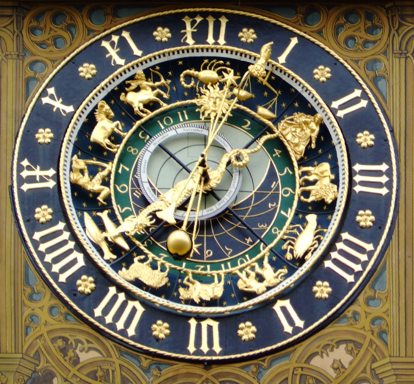 Astronomical clock (dating from 1520) at the town hall of Ulm/Germany